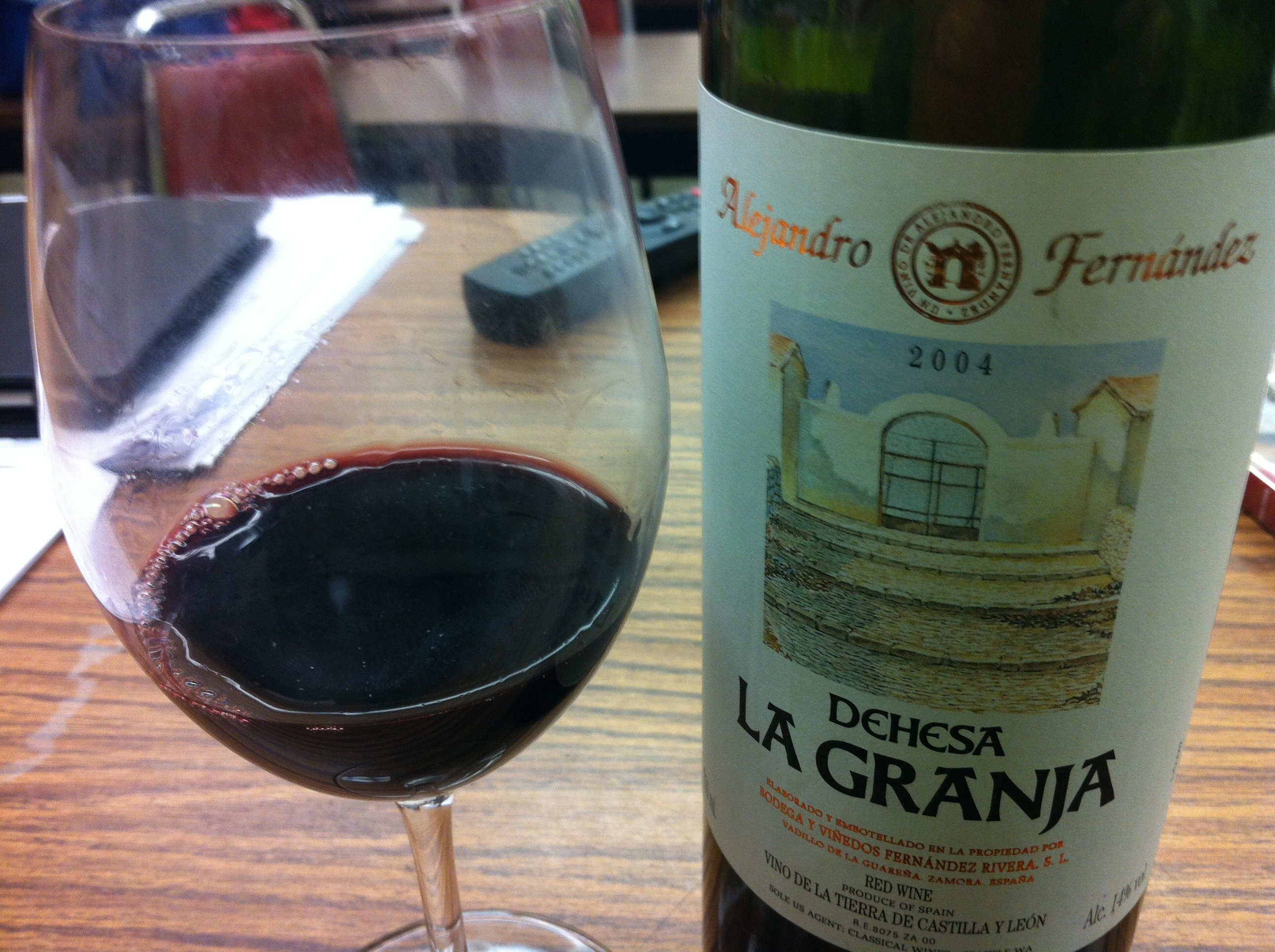 Spanish VdT wine from the Castilla y León region